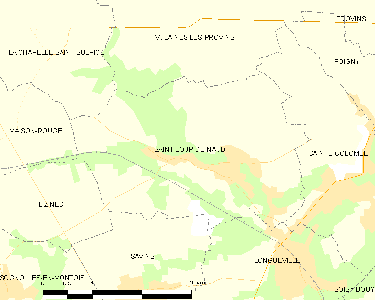 Map of French municipality Saint-Loup-de-Naud